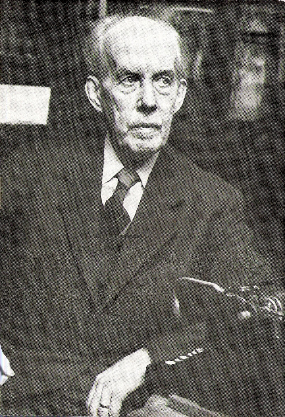 Axel B. Svensson.